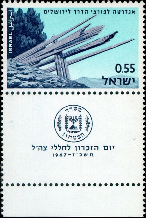 Stamp of Israel - Yom Hazikaron 1967